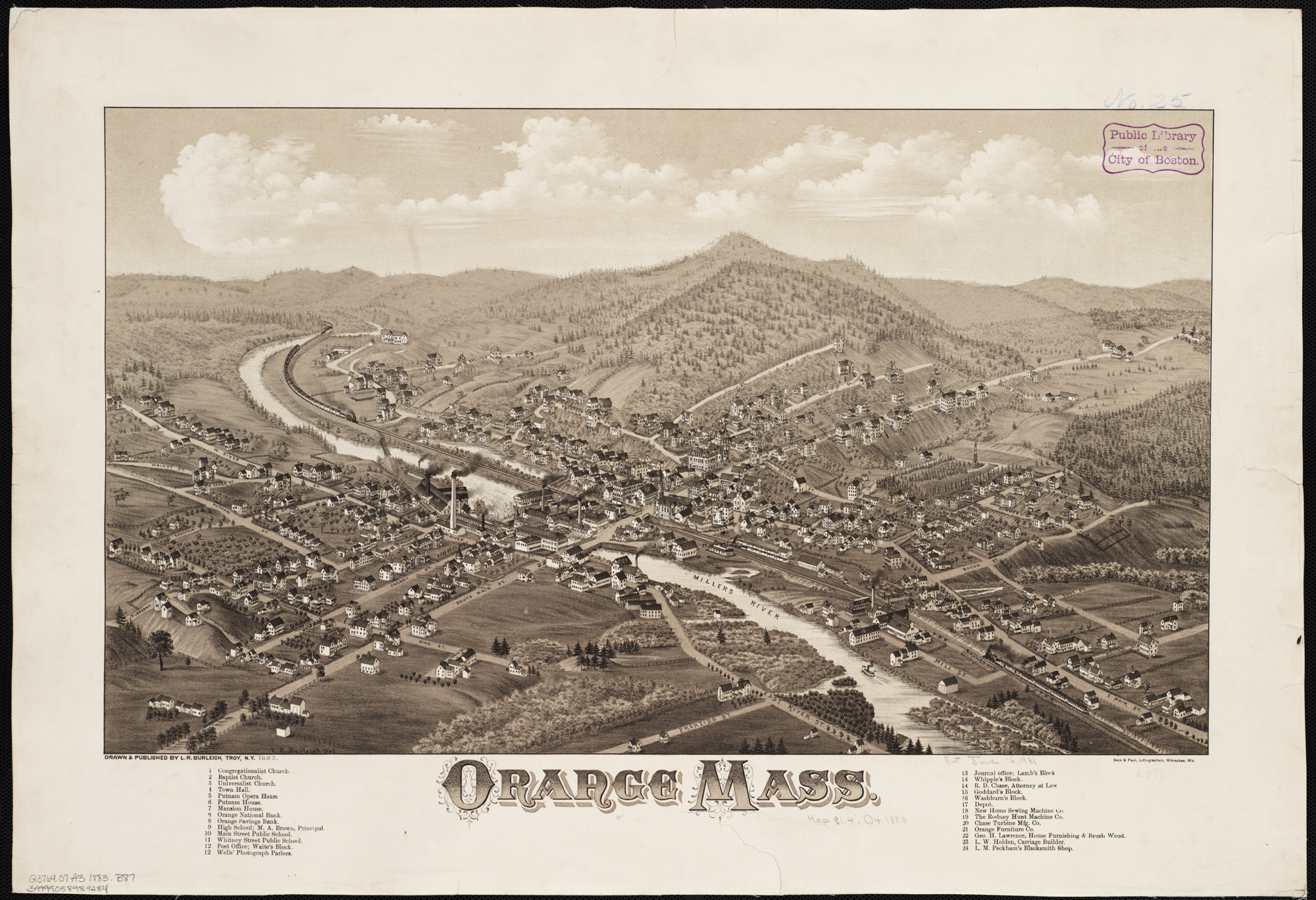 Zoom into this map at . Author: Burleigh, L. R. Publisher: L.R. Burleigh Date: 1883 Location: Orange (Mass.) Scale: Not drawn to scale. Call Number: G3764.O7A3 1883.B87